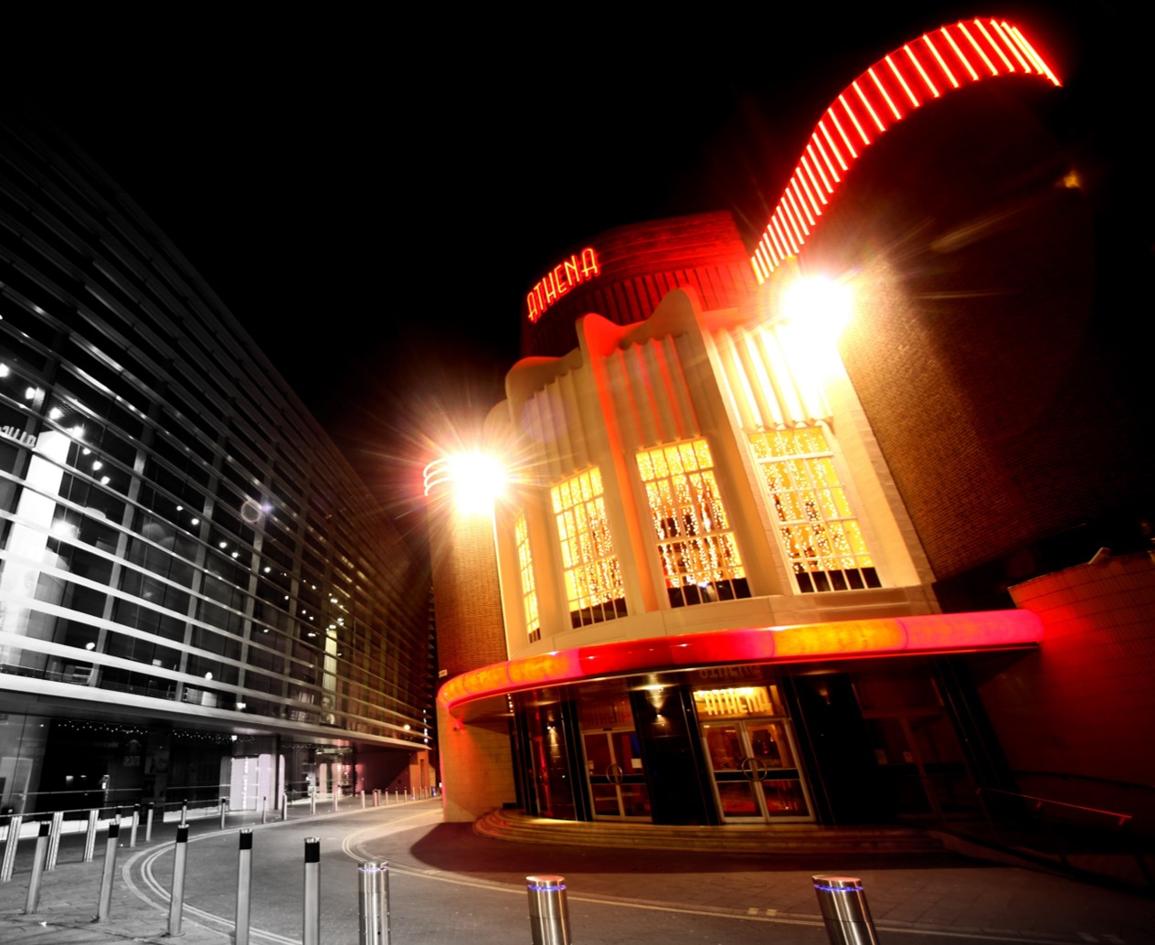 The Athena as it stands now